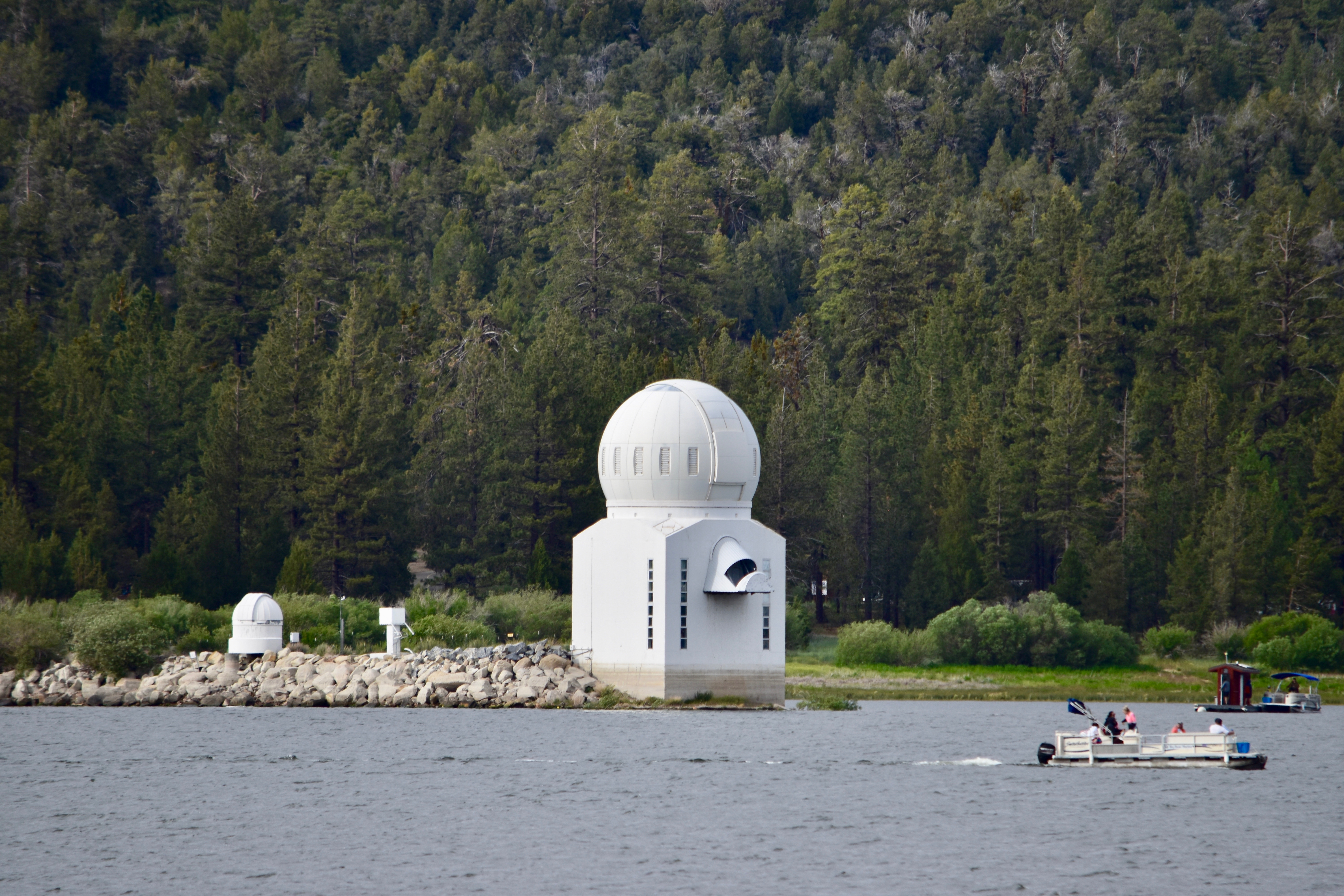 Big Bear Solar Observatory. From left to right, the Ash dome (H-alpha dome), the telescope pad, and the main dome.